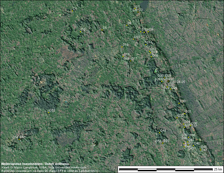 Shaded relief map of the location of the 53 extant Dutch 'hunebedden' (dolmens). Altitudes have been exaggerated by a factor 20 to show the relief. It can be seen that most dolmens are located on higher ground (the Hondsrug ice-pushed ridge). Map based on a 3" SRTM DEM and Landsat imagery.